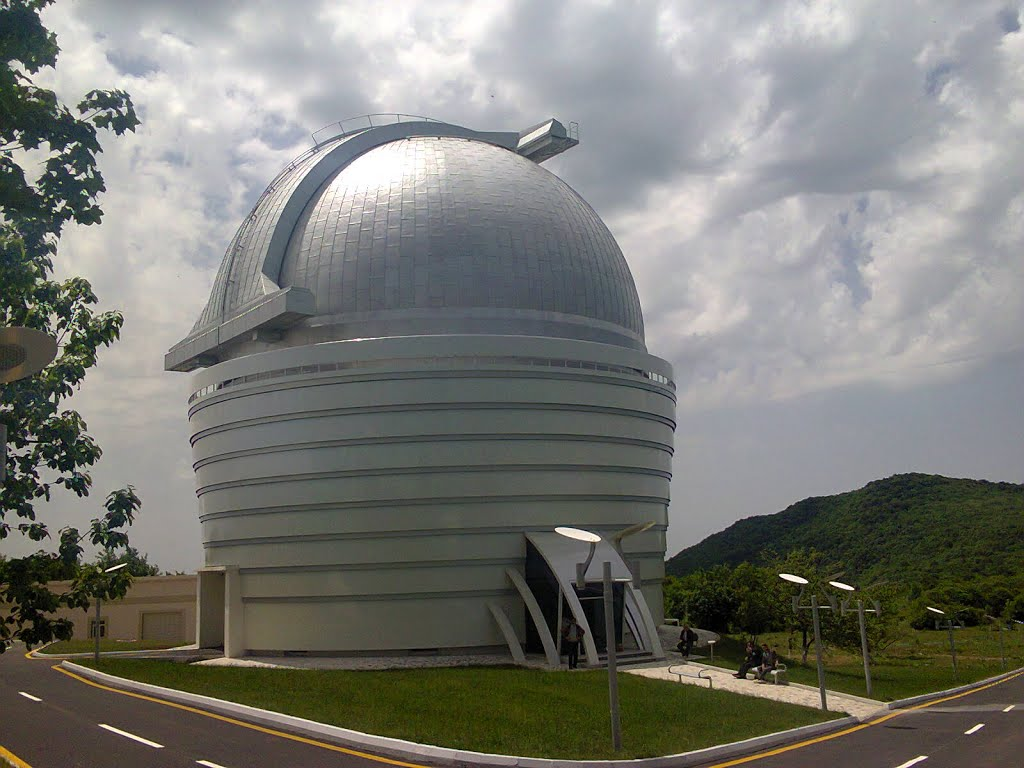 Shamakhi Astrophysical Observatory